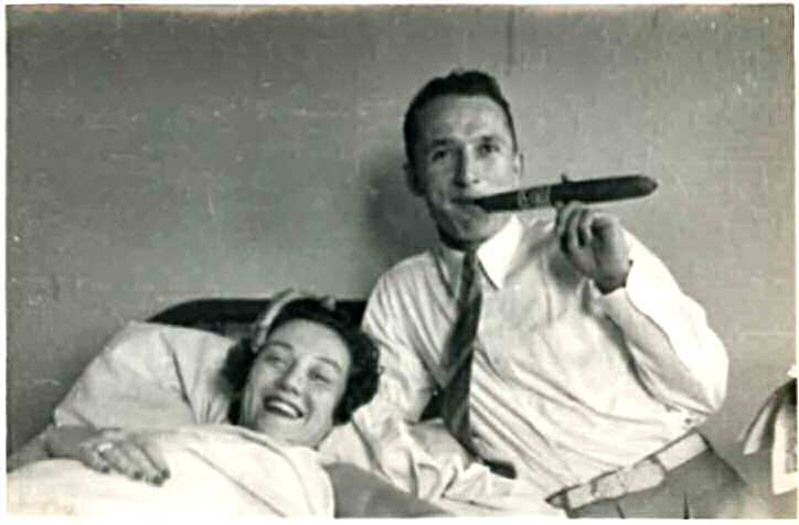 then-First Lieutenant James M. Masters, Sr. celebrates new parenthood with his wife Dorice (Kengla) Masters (nicknamed 'Dottie') in the maternity ward of The Woman's Hospital, 105 Great Western Road, Shanghai, China - August 1939.